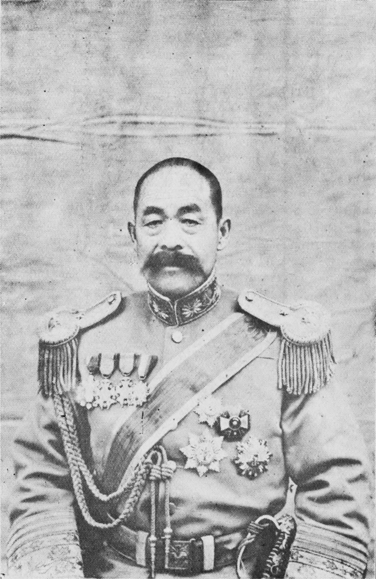 Zhang Fulai, Ziheng (1871 - 1925)